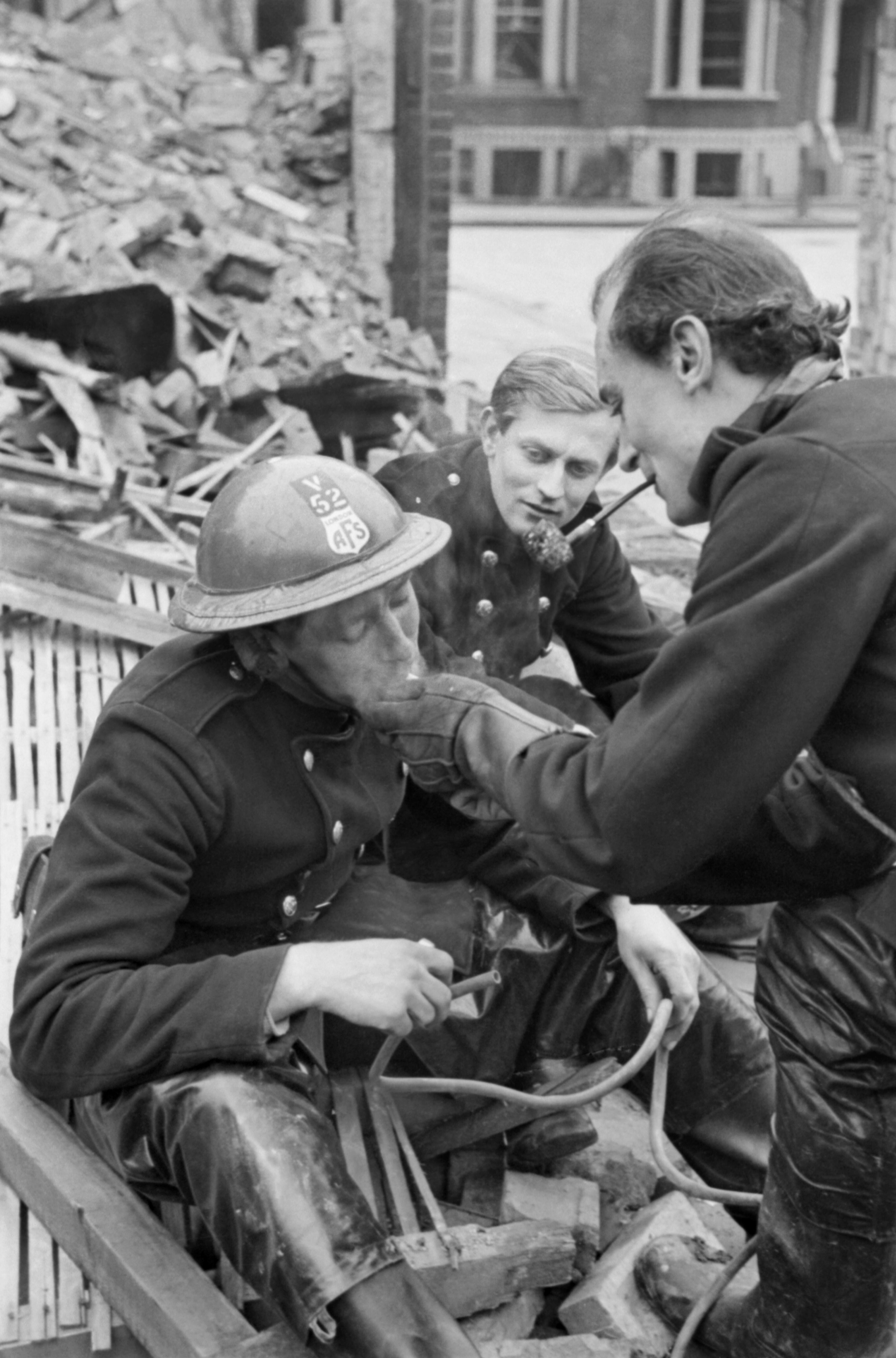 London Afs- Men of the Auxiliary Fire Service in London, C 1940 Auxiliary Firemen Bernard Hailstone, Leonard Rosoman and Richard Southern sit amongst rubble and share a smoke after a 'shout', somewhere in London. Southern, who is smoking a pipe, lights Hailstone's cigarette as Rosoman looks on.